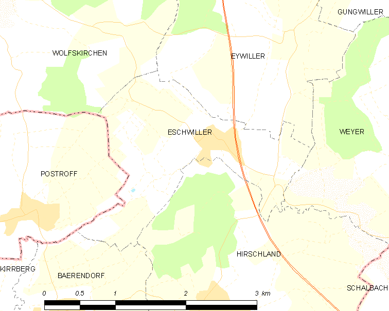 Map of French municipality